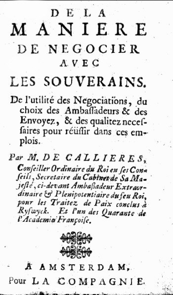 Title page of De la manière de négocier avec les souverains ("On the Manner of Negotiating with Princes") by French writer and diplomat François de Callières.